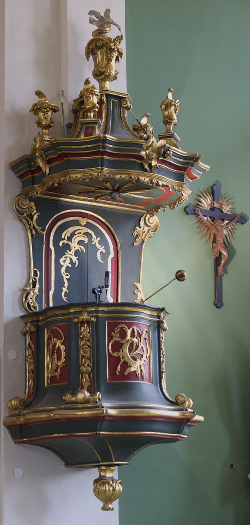 Rococo pulpit in collegiate church in Wejherowo